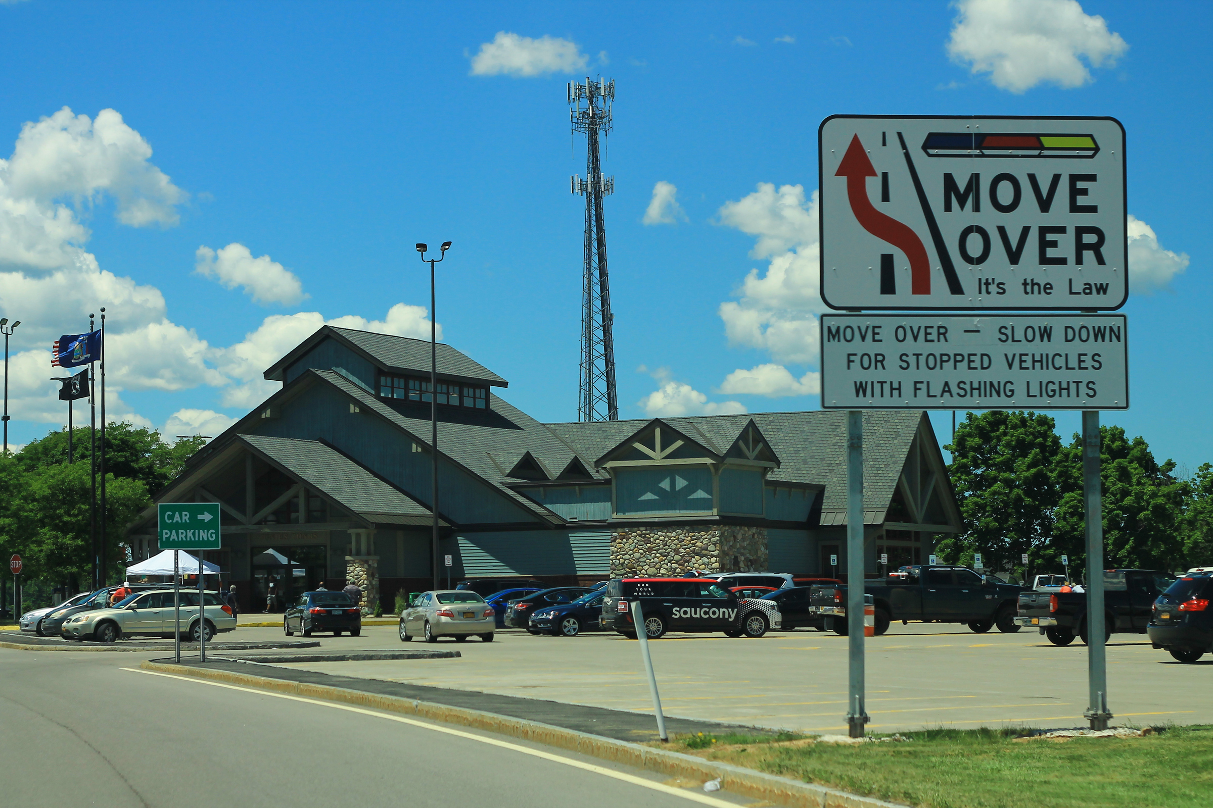 Junius Ponds travel plaza in Phelps, NY, I-90 West Thruway - Move Over Sign